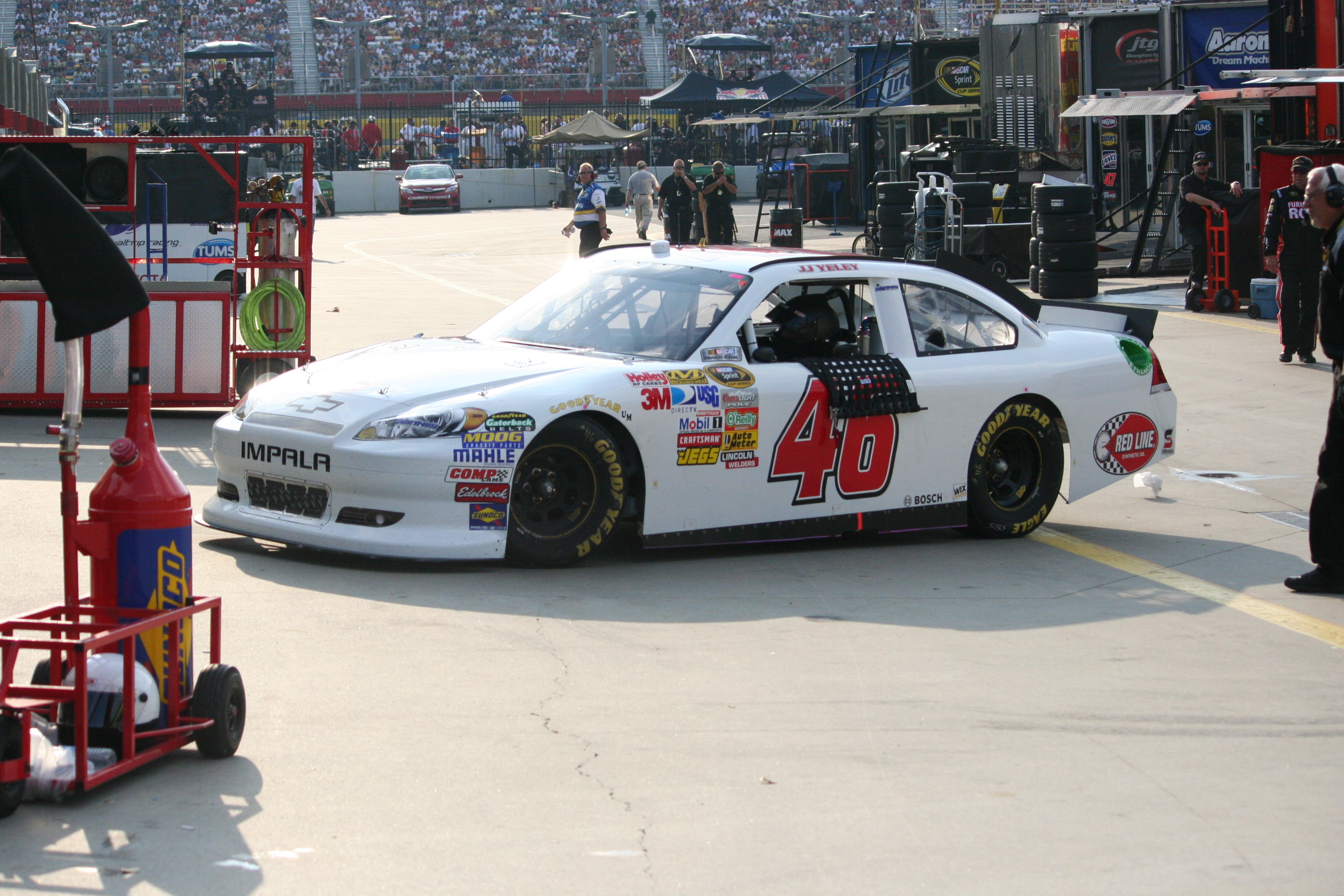 J.J. Yeley pulls his car into the garage during the Coca-Cola 600 at Charlotte Motor Speedway, May 29, 2011